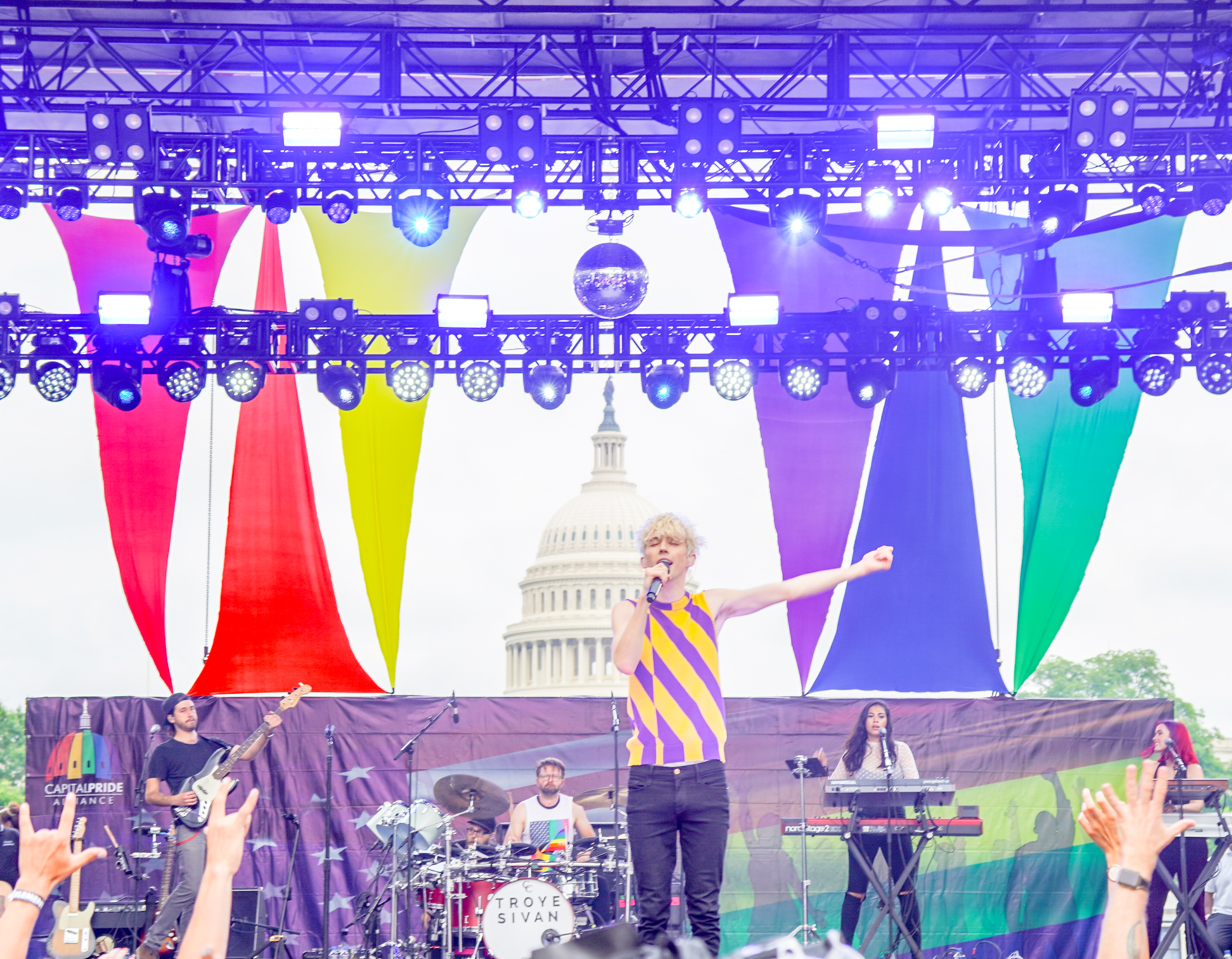 2018.06.10 Troye Sivan at Capital Pride w Sony A7III, Washington, DC USA 03527